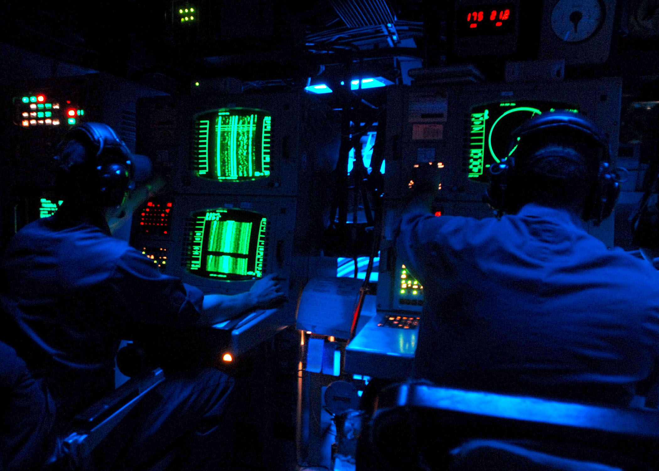 ATLANTIC OCEAN (Dec. 8, 2009) Sonar Technicians aboard the guided-missile destroyer USS The Sullivans (DDG 68) monitor sonar equipment during the Southeastern Anti-Submarine Warfare Integrated Training Initiative. The Sailors are remaining alert for signs of marine mammals as well as for submarine activity. (U.S. Navy photo by Mass Communication Specialist 2nd Class Sunday Williams/Released)